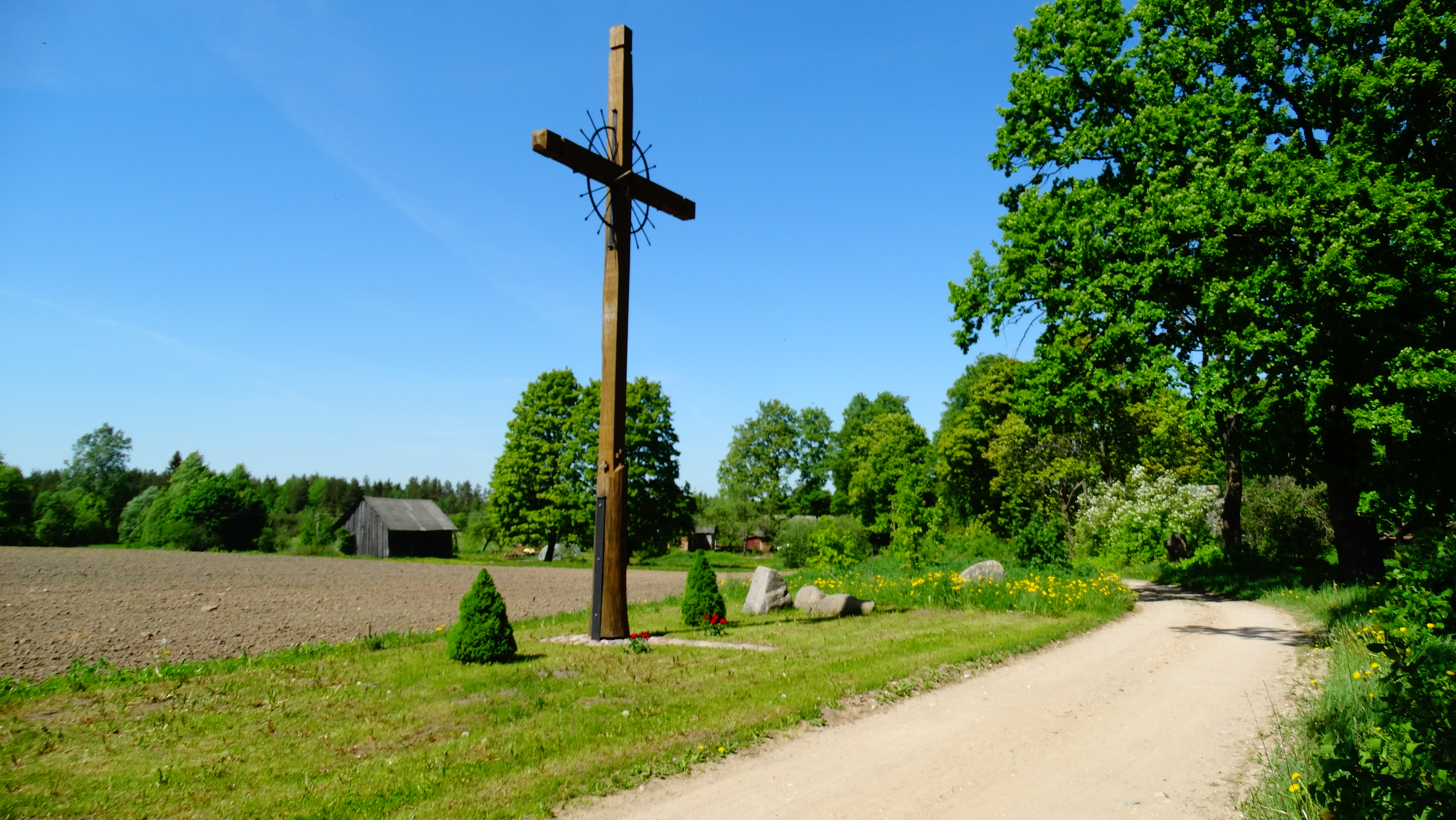 Zuikos, Ignalina district, Lithuania